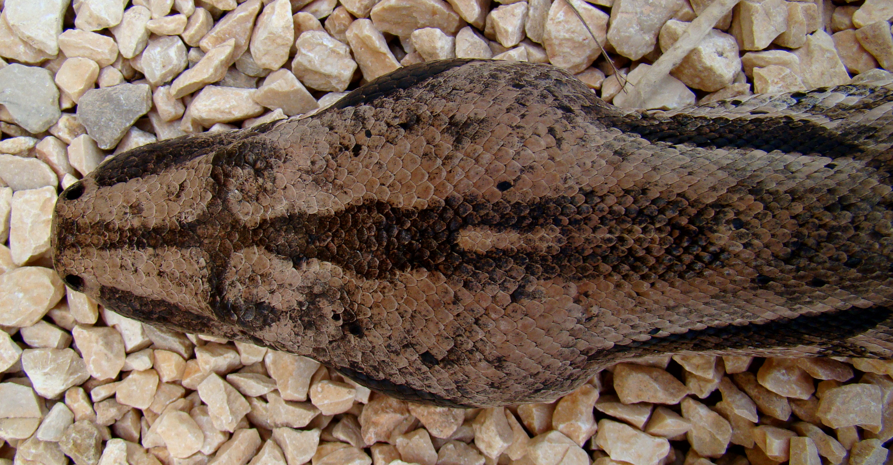 A two-year-old Boa constrictor at the Belize Zoo, west of Belize City, Belize.